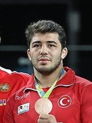 Cenk Ildem. Rio 2016.